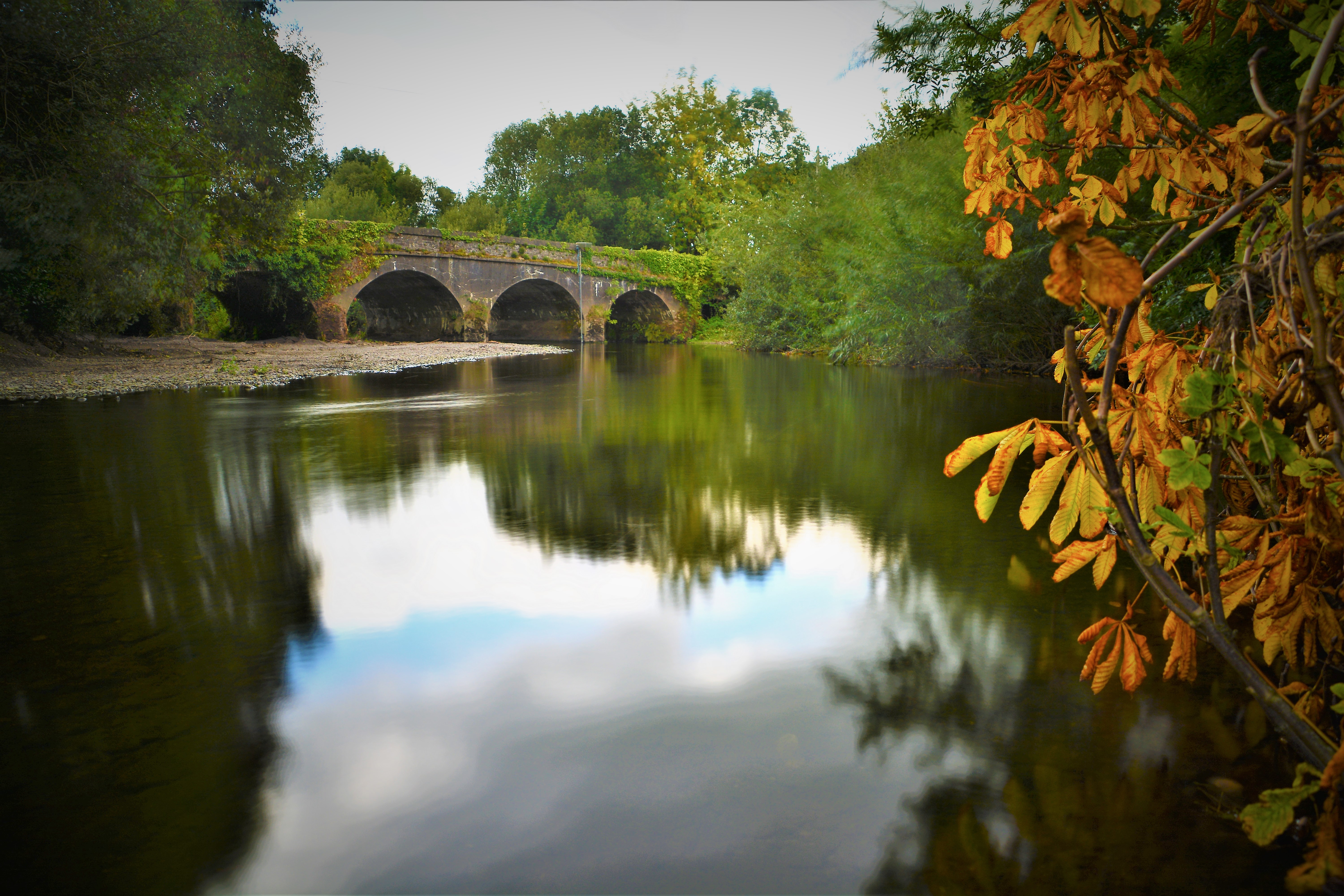 County Cork, Carrigaphocca Bridge. Wikidata has entry Q55045724 with data related to this item.